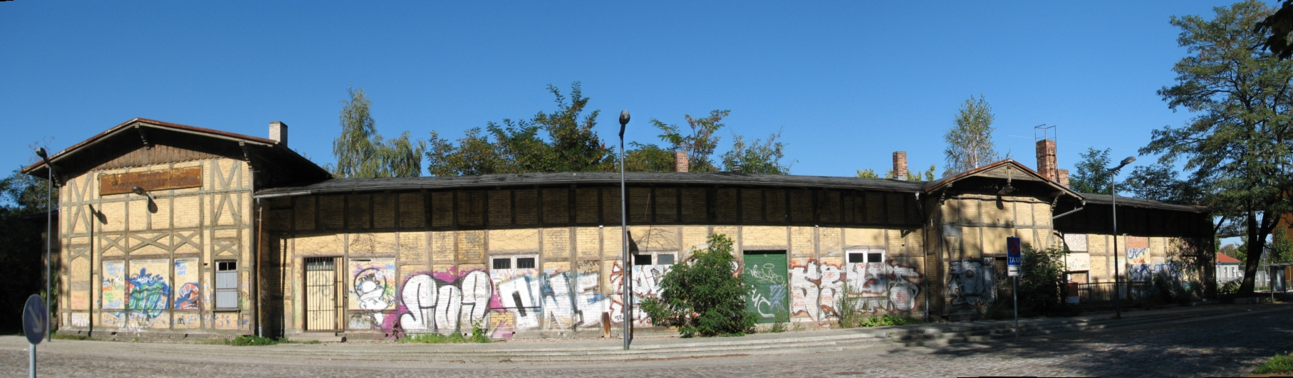 The former train station of Hoppegarten east of Berlin. It is now abandoned.